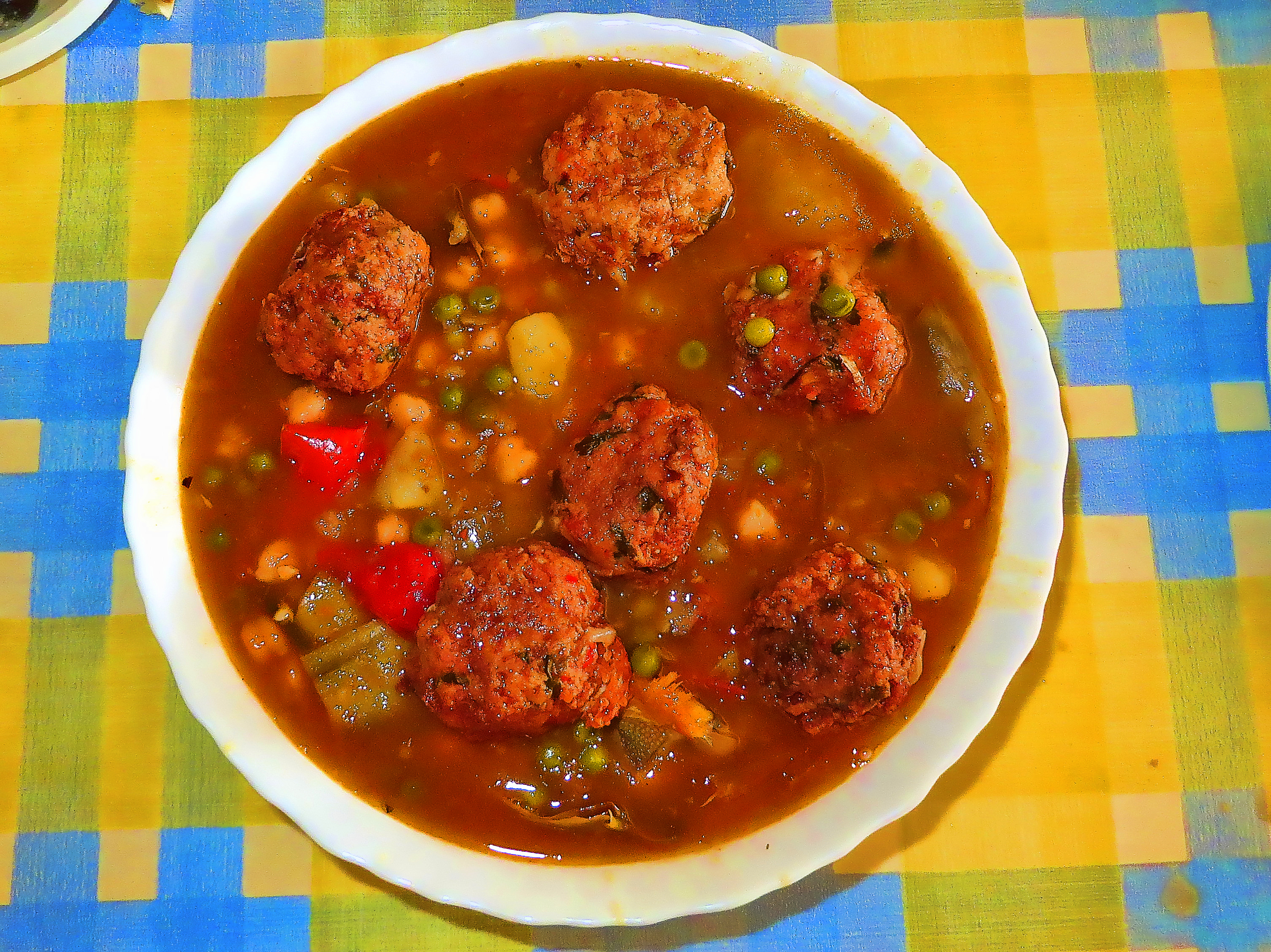 Guiso de albóndigas de bacalao con alcachofas